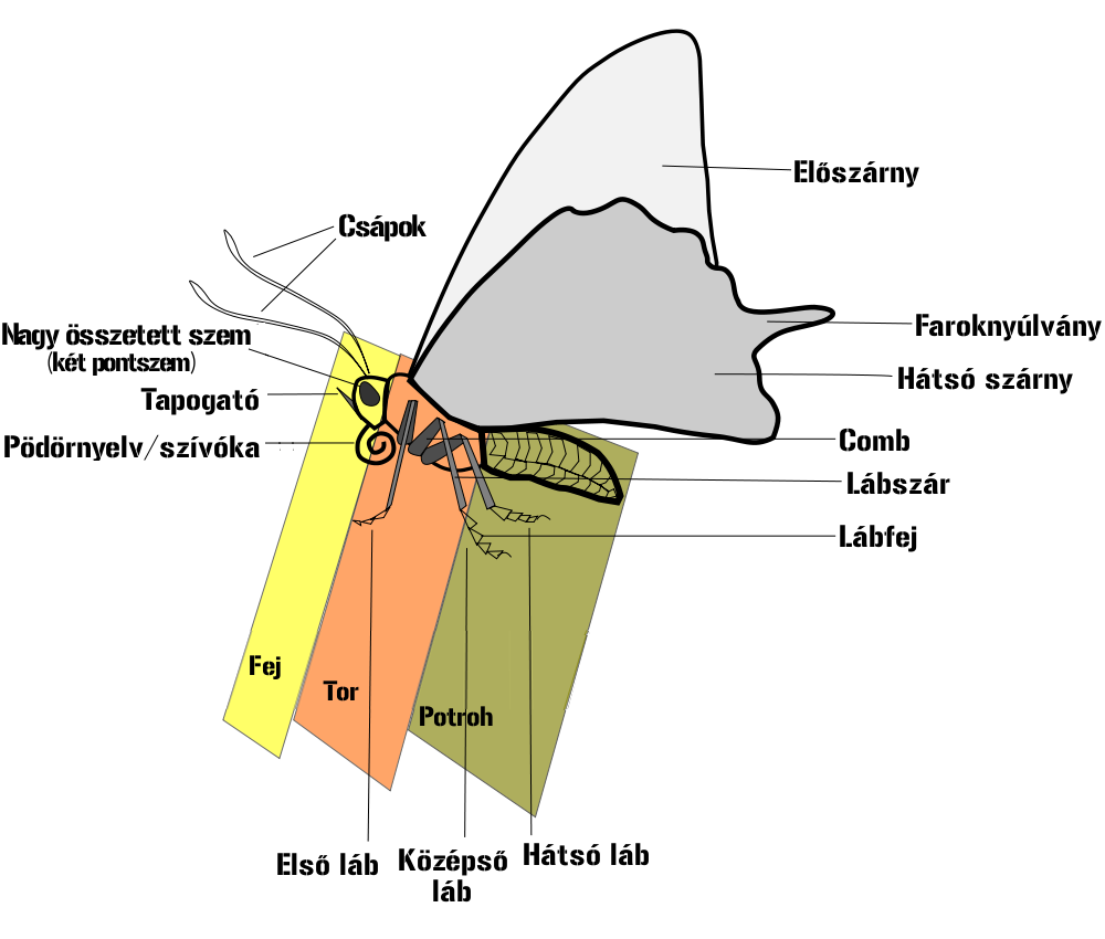 Parts of an adult butterfly - Hungarian version